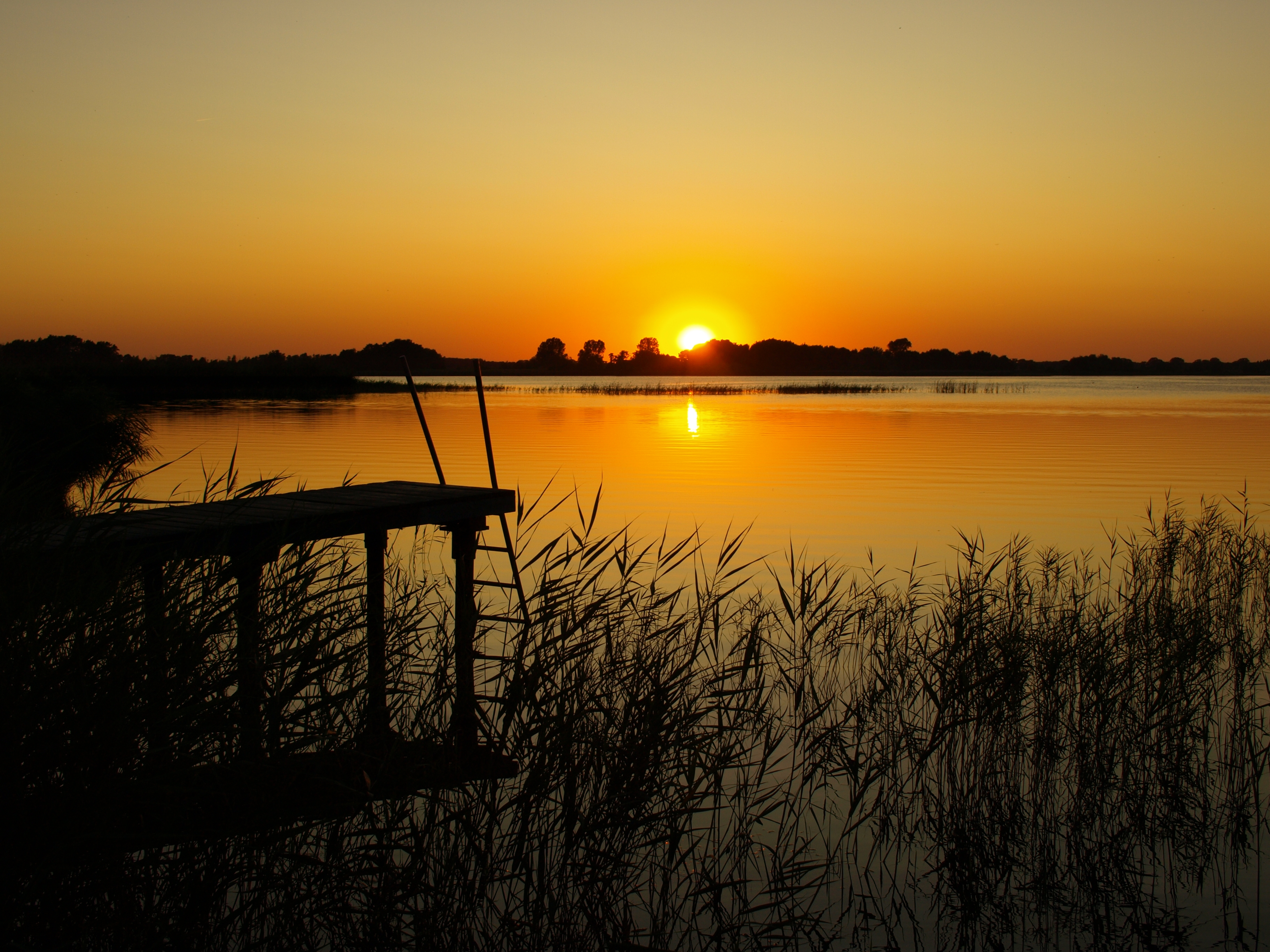 Red sunset at Krienker See, Usedom/ Germany.